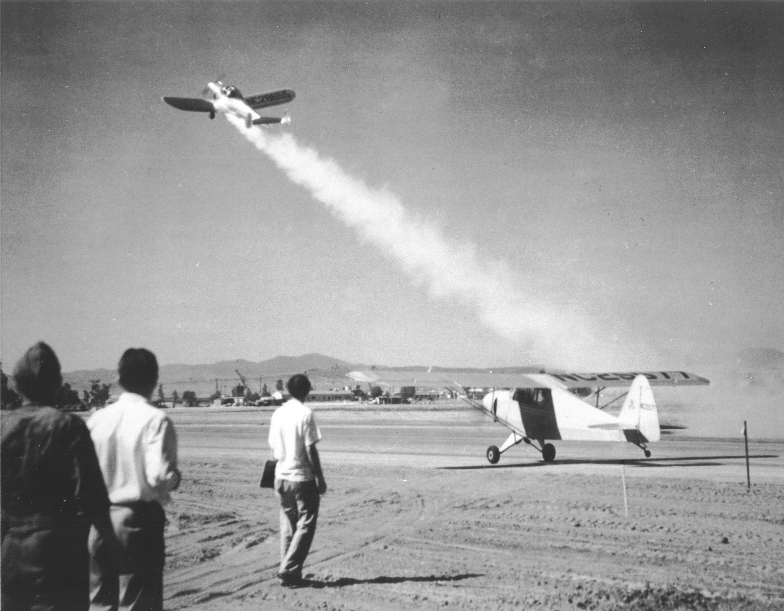 Collection: NASA Great Images in Nasa Collection Title: First JATO assisted Flight Full Description: Take-off of America's first "rocket-assisted" airplane, an Ercoupe fitted with a GALCIT developed solid propellent 28 pound thrust JATO (Jet Assisted Take-Off) booster. The Ercoupe took off from March Field, California and was piloted by Captain Homer A. Boushey Jr. Date: 08/12/1941 NASA Center: Jet Propulsion Laboratory Image #: JPL-JATO Original url: UID: SPD-GRIN-GPN-2000-00 1538 GRIN DataBase Number: GPN-2000-001538 Visit for the most comprehensive compilation of NASA stills, film and video, created in partnership with Internet Archive.